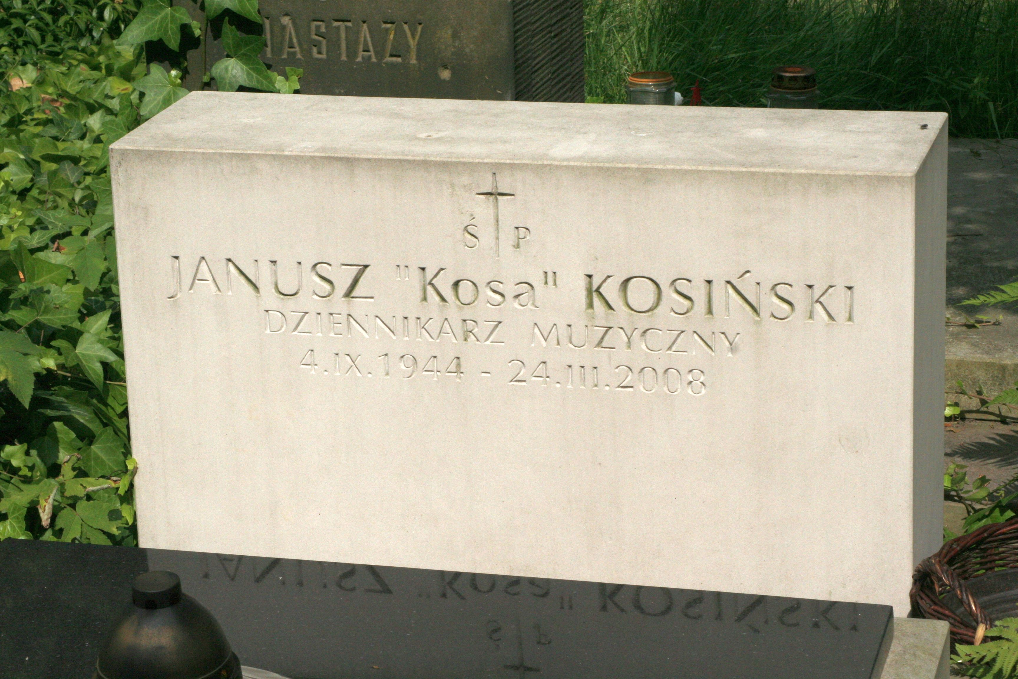 Janusz Kosiński's grave at Protestant Reformed Cemetery, Warsaw.